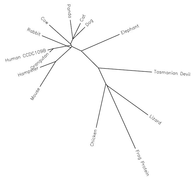 Phylogenetic Tree of CCDC109B showing the relatedness of the orthologs of the CCDC109B gene conserved in various organisms.